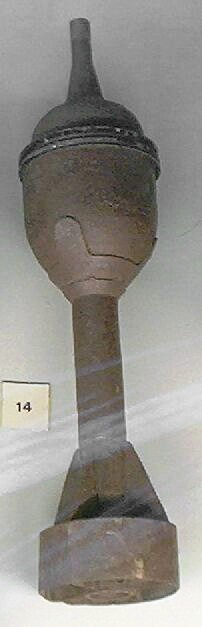 PIAT HEAT shell